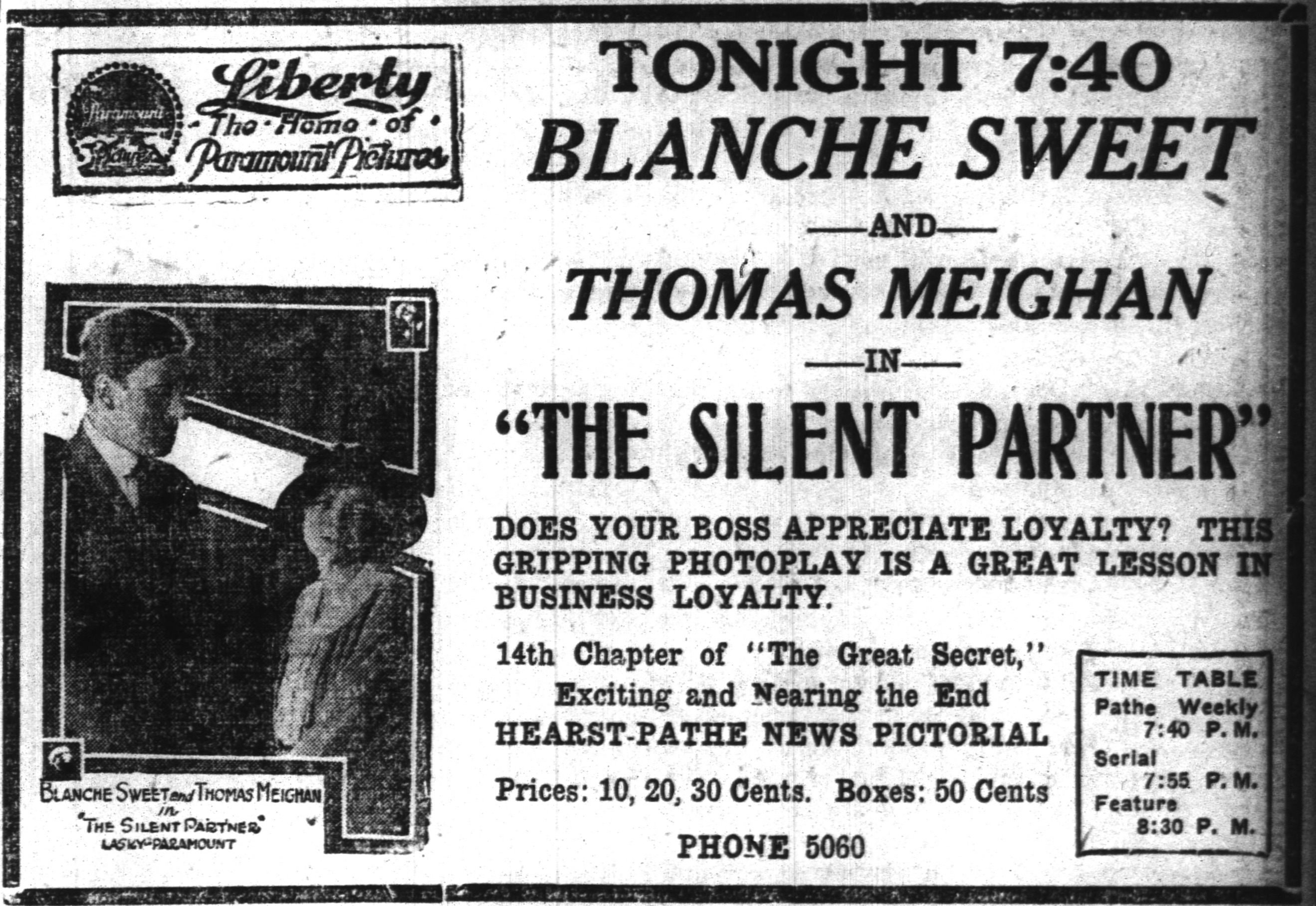 The Silent Partner is a 1917 American silent drama film directed by Marshall Neilan from a screen story by Edmund Goulding and starred Blanche Sweet, who in a few years would marry Marshall Neilan.